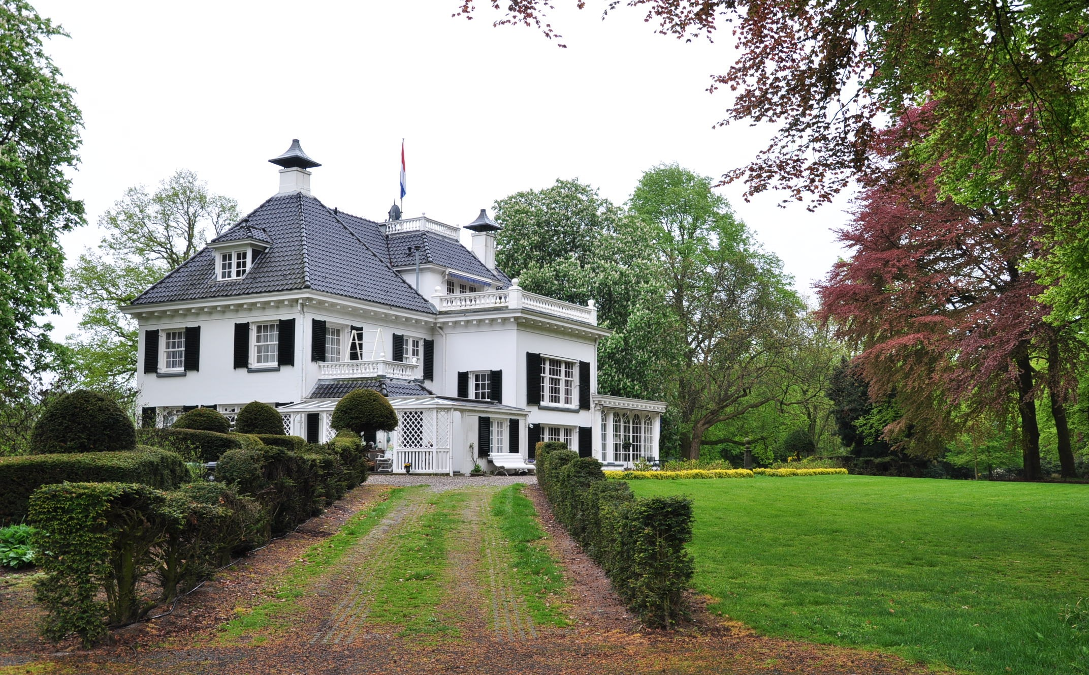 Zonnebeek Mansion/Estate was built in 1907 by the Dutch textile family Van Heek and is situated near Enschede in the eastern part of the Netherlands (Province Overijssel). The rear side is shown.